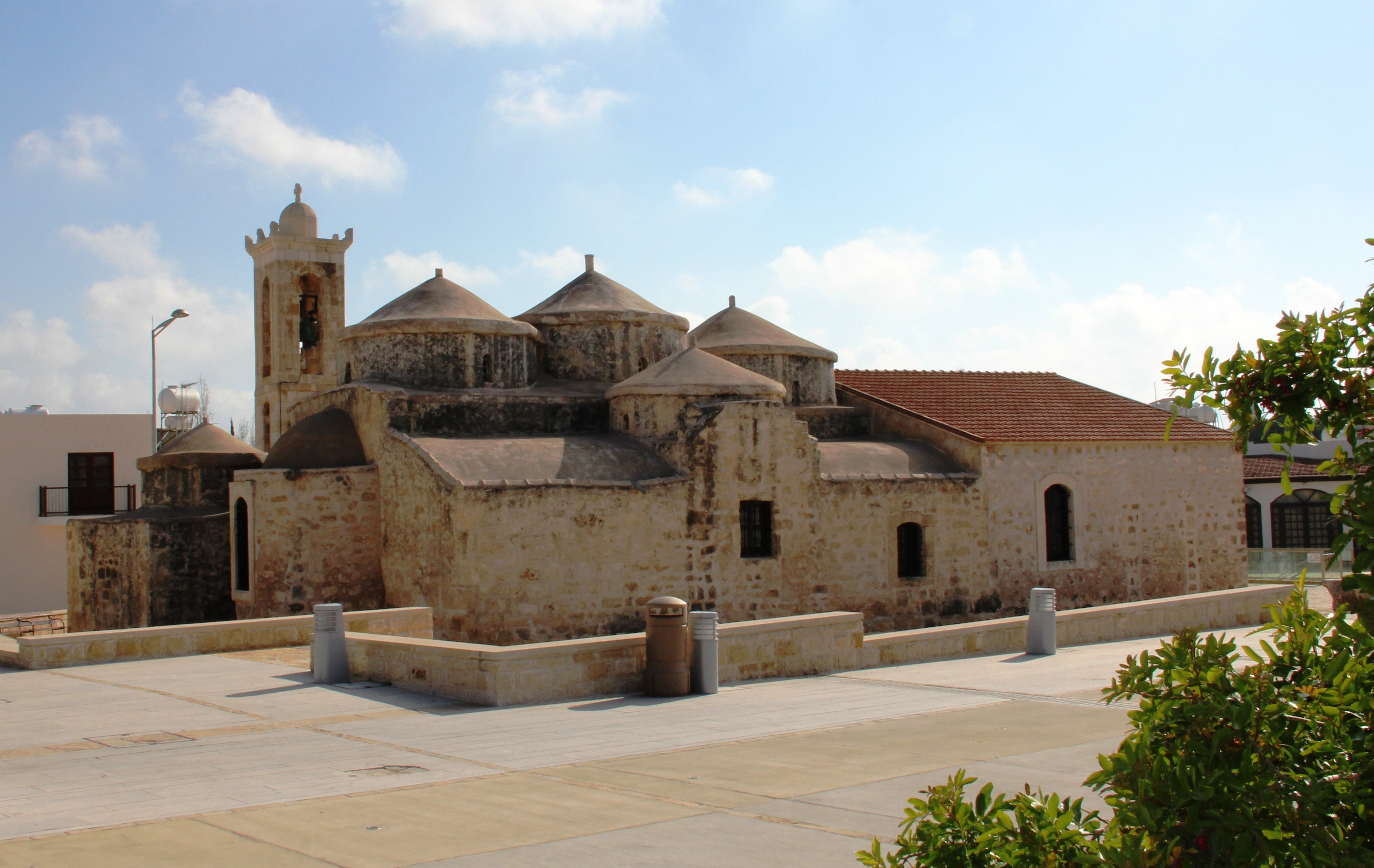 Ayia Paraskevi byzantine church in Yeroskipou, Cyprus (northview)